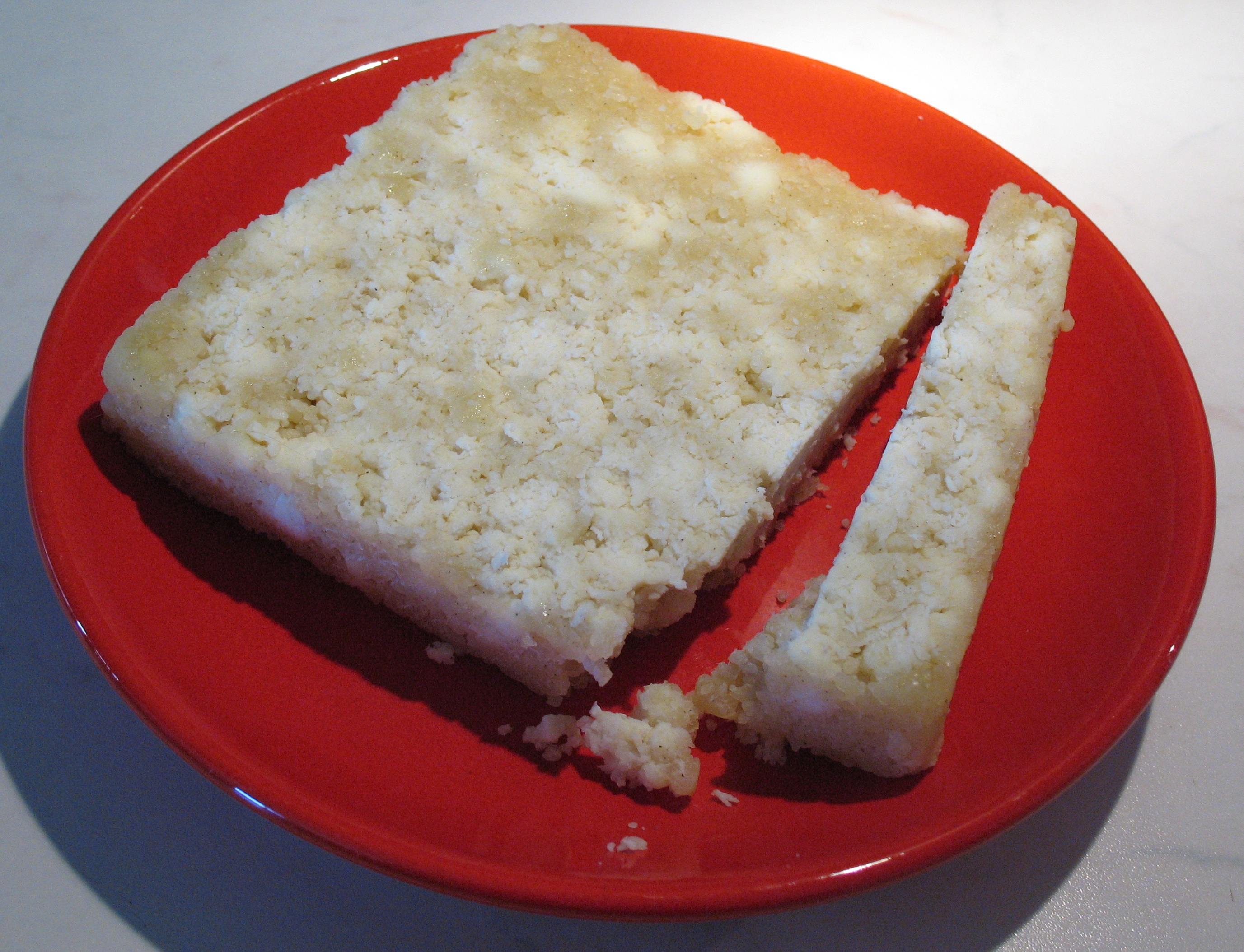 A piece of tyrolean Graukäse.